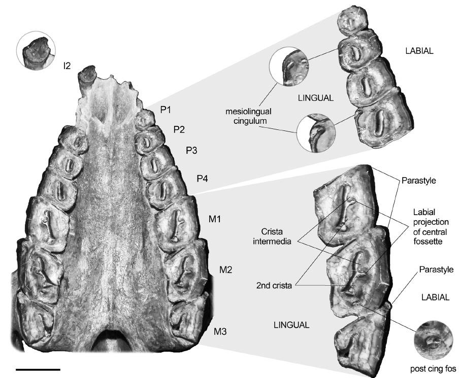 Upper palate and dentition of Rhynchippus equinus from the Sarmiento Formation, Golfo San Jorge Basin, Argentina